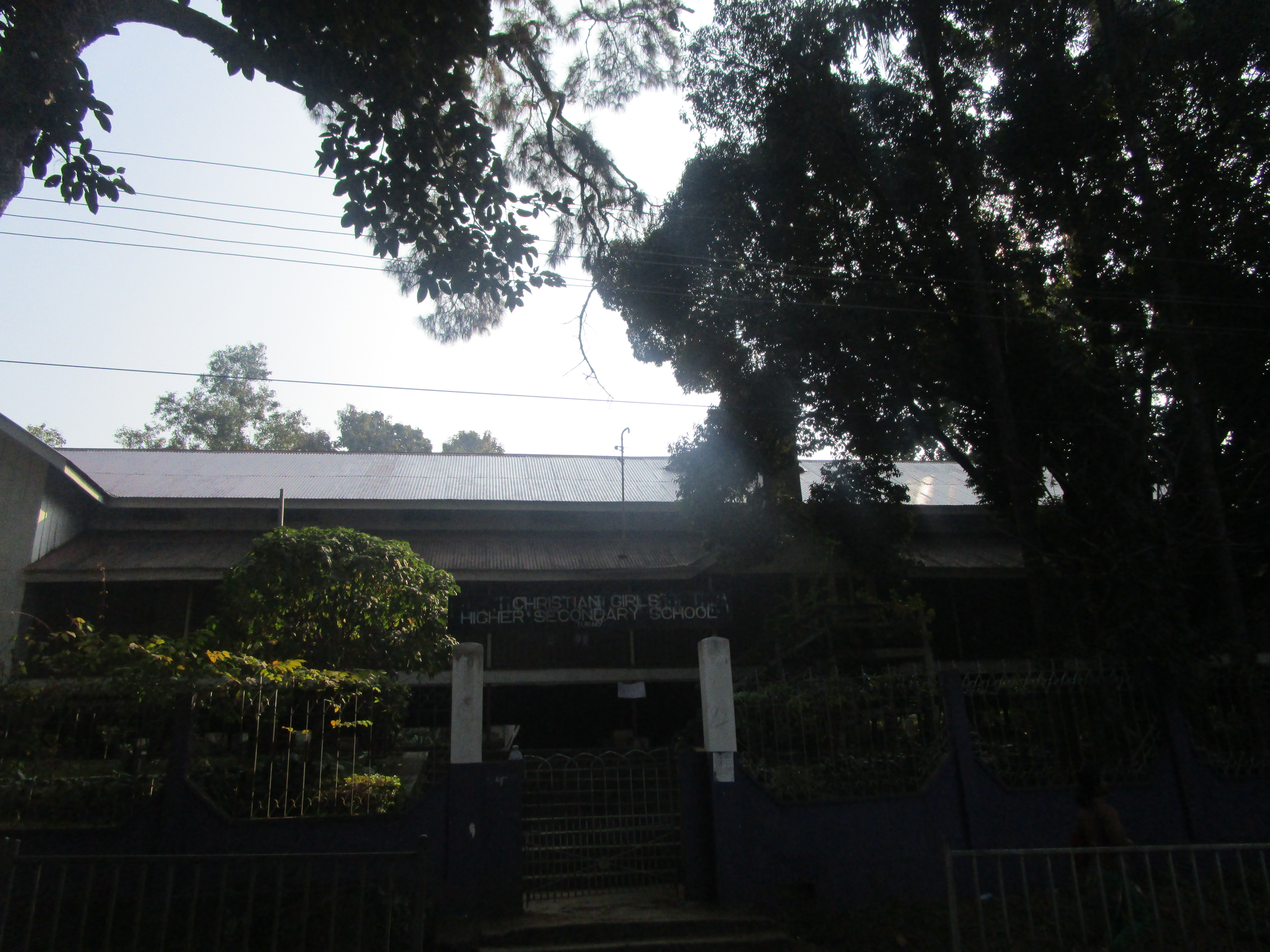 Christian Girls Higher Secondary School at Tura, Meghalaya.